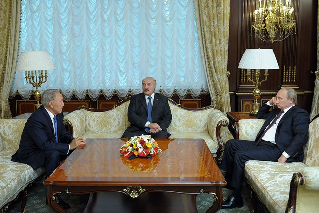 Meeting of the Heads of State of the Customs Union with President of Ukraine and representatives of the European Union In Minsk: Vladimir Putin meets with President of Belarus Alexander Lukashenko and President of Kazakhstan Nursultan Nazarbayev.